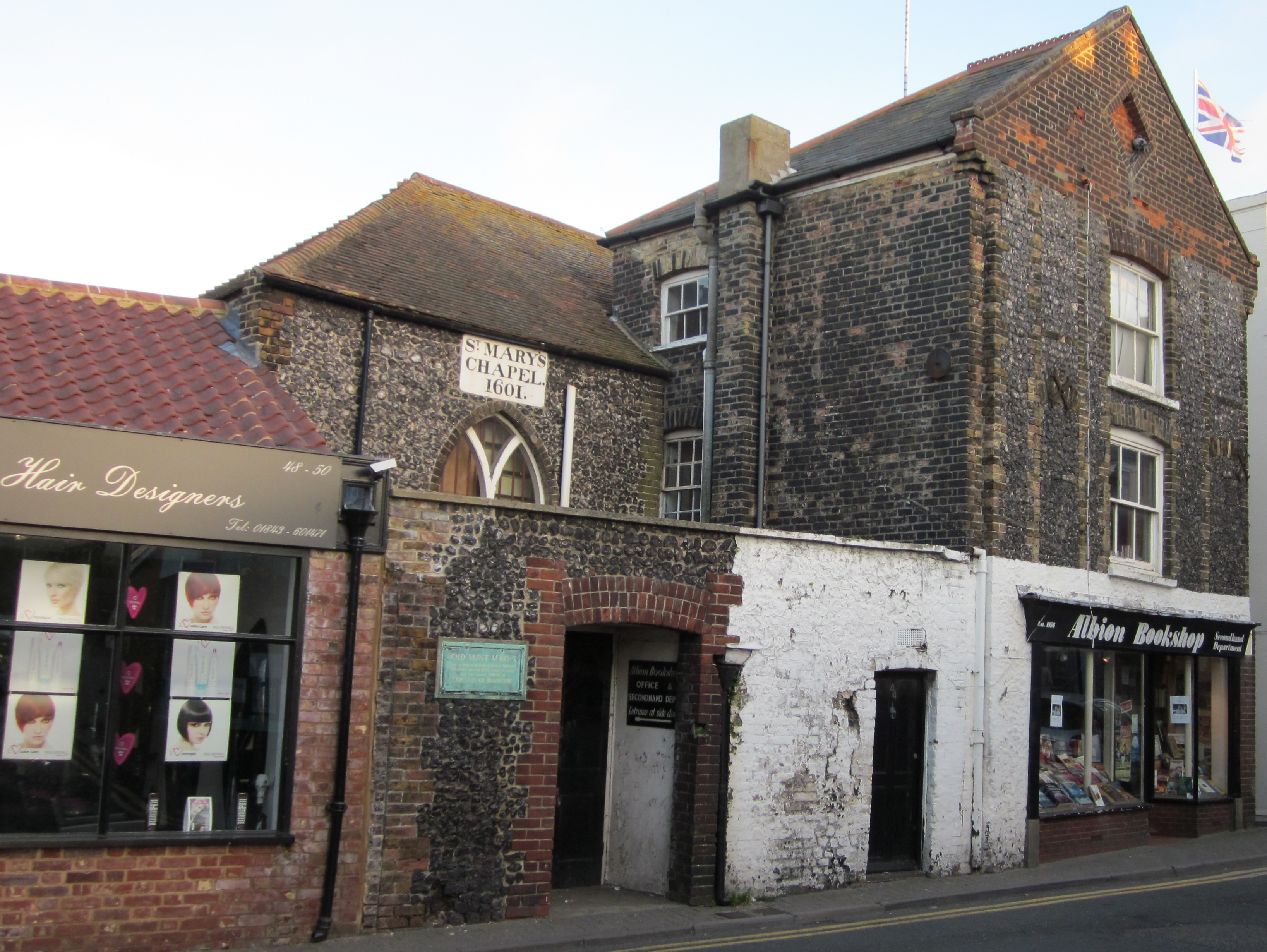 St Mary's chapel in Broadstairs is built on the site of the Shrine of Our Lady, Bradstowe, formerly a major landmark and place of pilgrimage on the Kent coast. It is the origin of the custom where sailing ships would dip their topsails as a mark of respect.